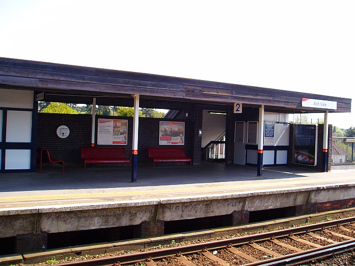 Ash Vale railway station